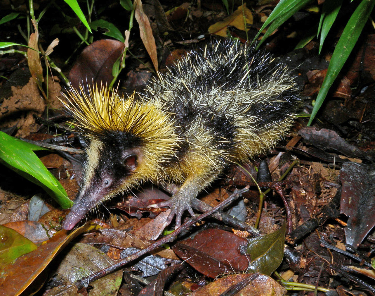 Lowland streaked tenrec (Hemicentetes semispinosus), Mantadia, Madagascar